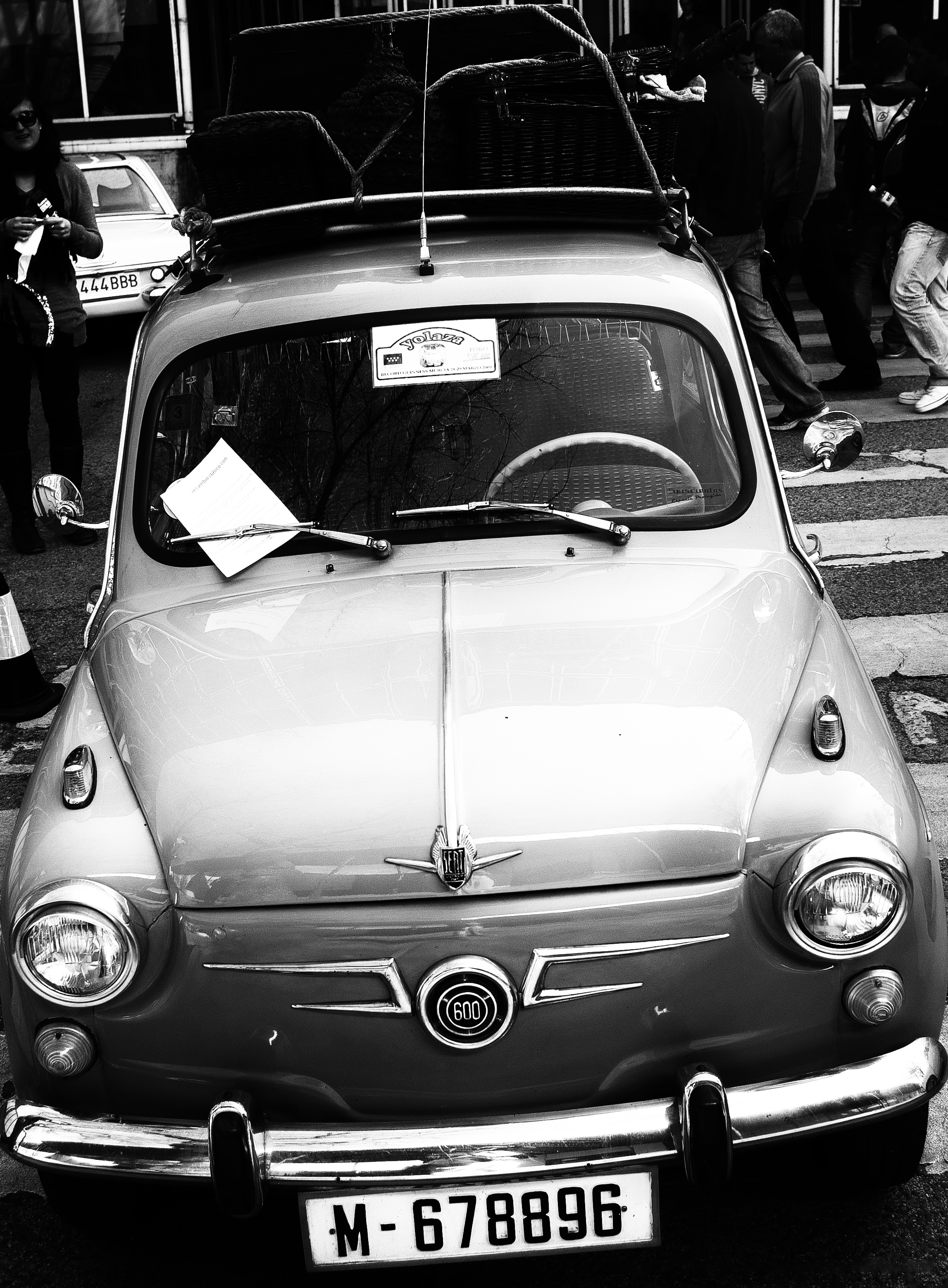 1968 Seat 600 N